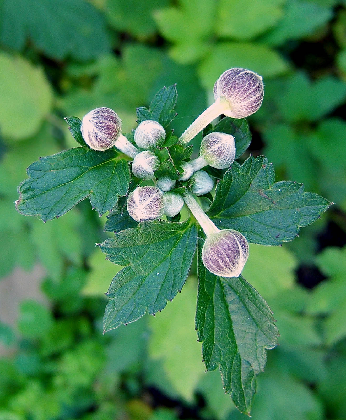 Chinese Anemone